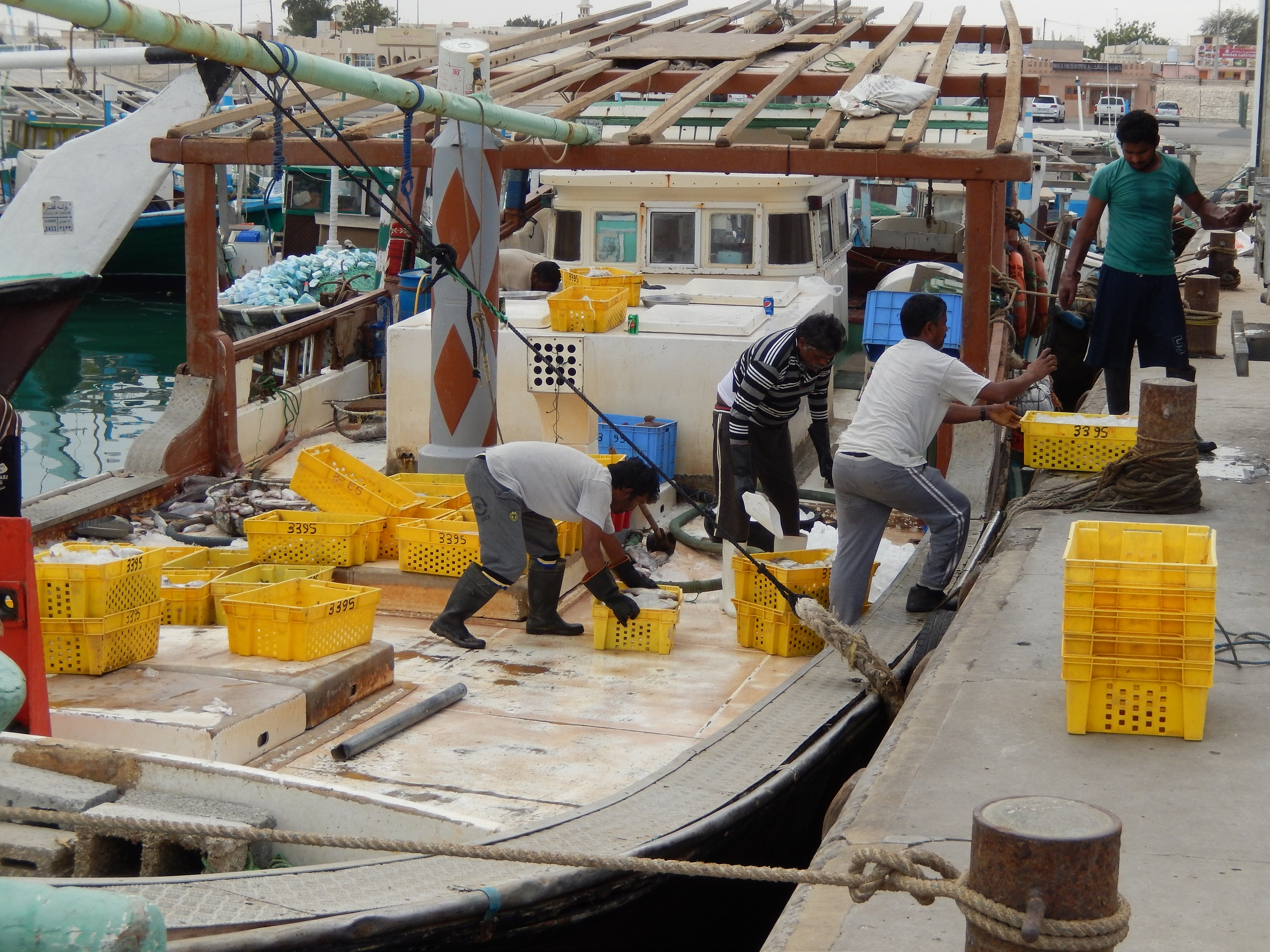 Offloading fish from a dhow in the harbour of Al Khor (Qatar).